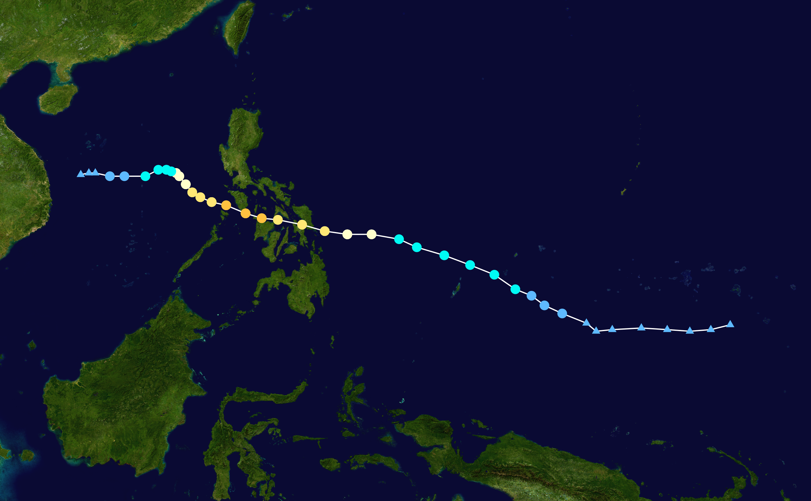 Track map of Typhoon Phanfone of the 2019 Pacific typhoon season. The points show the location of the storm at 6-hour intervals. The colour represents the storm's maximum sustained wind speeds as classified in the Saffir–Simpson scale (see below), and the shape of the data points represent the nature of the storm, according to the legend below. Saffir–Simpson scale Tropical depression≤38 mph≤62 km/h Category 3111–129 mph178–208 km/h Tropical storm39–73 mph63–118 km/h Category 4130–156 mph209–251 km/h Category 174–95 mph119–153 km/h Category 5≥157 mph≥252 km/h Category 296–110 mph154–177 km/h Unknown Storm type Tropical cyclone Subtropical cyclone Extratropical cyclone / Remnant low / Tropical disturbance / Monsoon depression